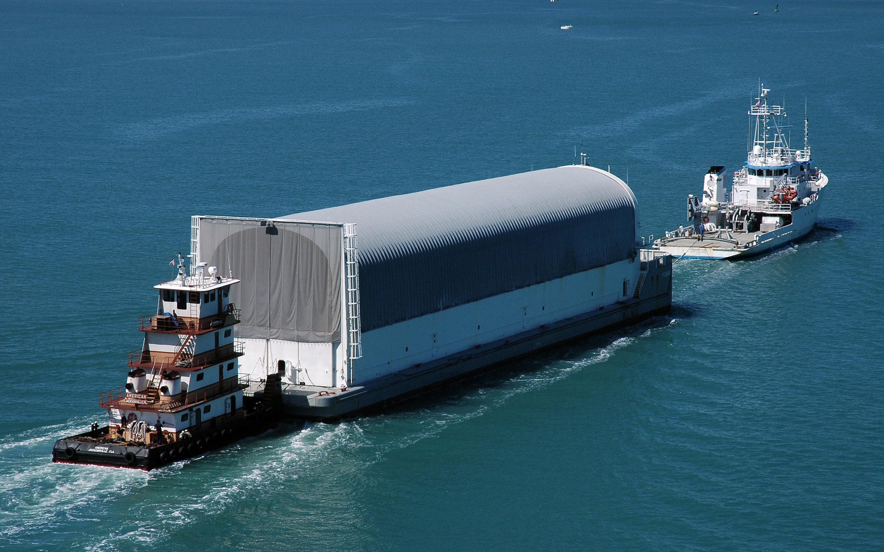 The Pegasus barge, towed by the solid rocket booster retrieval ship Freedom Star and towboat American, approaches Port Canaveral. The barge carries the redesigned external fuel tank that will launch the Space Shuttle Discovery on the next shuttle mission, STS-121. It left the Michoud Assembly Facility in New Orleans Feb. 25, making the voyage around the Florida Peninsula in five days. Next stop for the barge is the turn basin near NASA Kennedy Space Center's Vehicle Assembly Building. After off-loading, the tank will be moved into the Vehicle Assembly Building and lifted into a checkout cell for further work. The tank, designated ET-119, will fly with many major safety changes, including the removal of the protuberance air load ramps. A large piece of foam from one of the ramps came off during the July 2005 launch of the last shuttle mission. The ramps were removed to help eliminate a potential source of damaging debris to the space shuttle. Launch of Discovery is scheduled for May 2006.